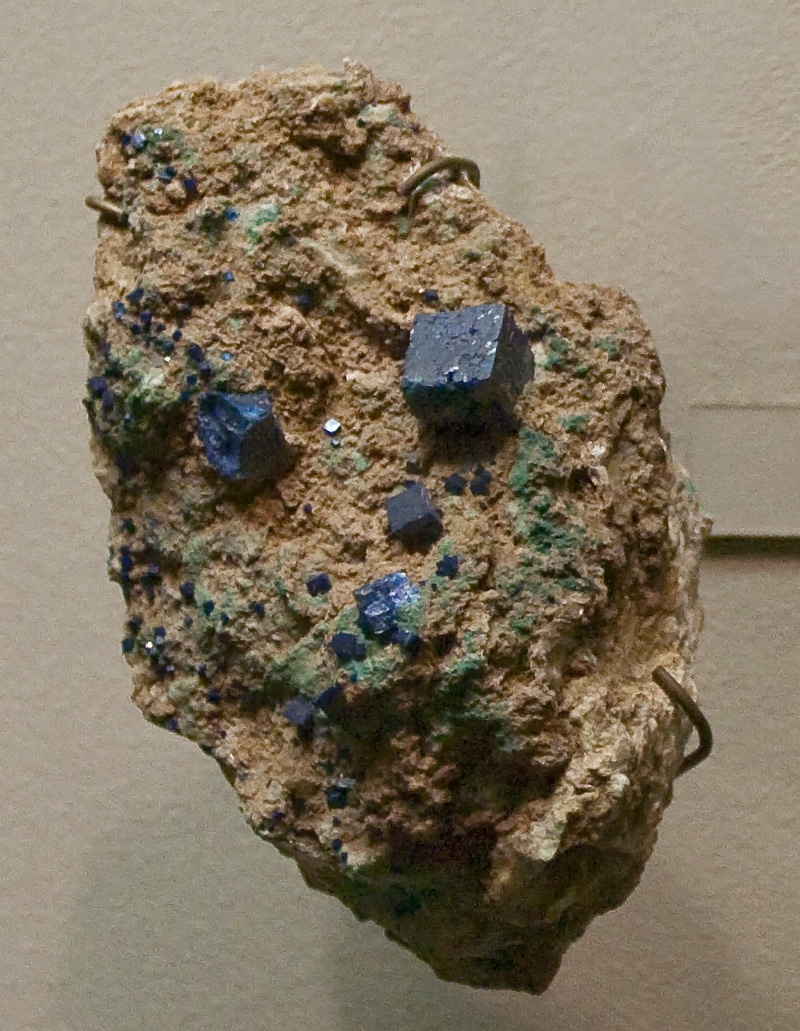 Boleite on display at the New York Museum of Natural History. The blue cubes are boleite.